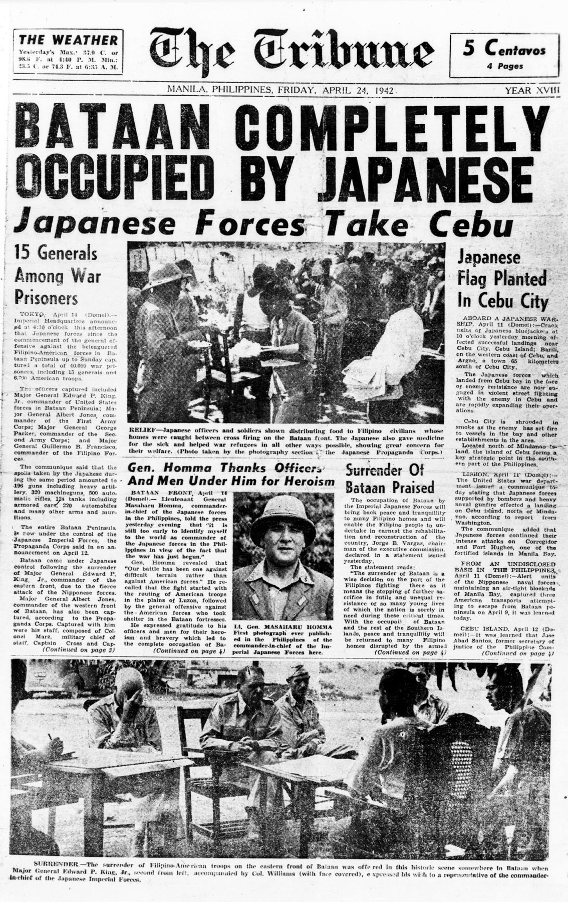 A newspaper headline on April 24, 1942 telling of the fall of Bataan